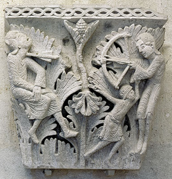 Сolumn capital from the Cathedral of Saint-Lazare in Autun (France) depicts Lamech hunting with his son Tubal-Cain. They accidentally shoot and kill Cain, ХII century.